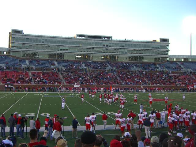 Photo by Nick Juhasz.